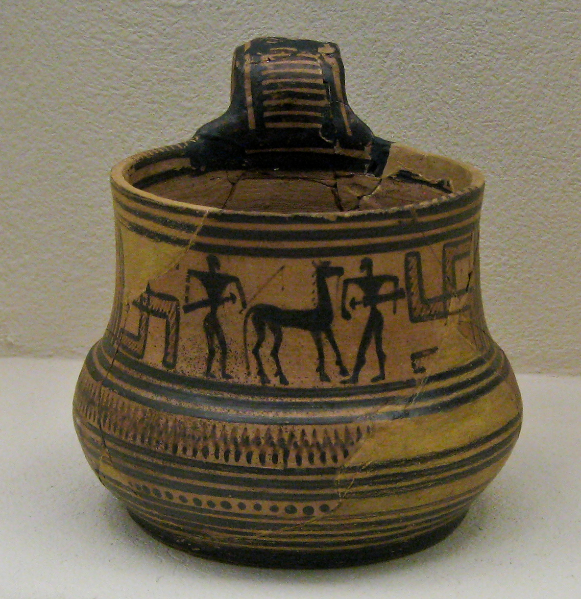 Attic geometric oinochoe depicting warriors taming a horse (?). Kerameikos Archaeological Museum in Athens. 800-775 BC.